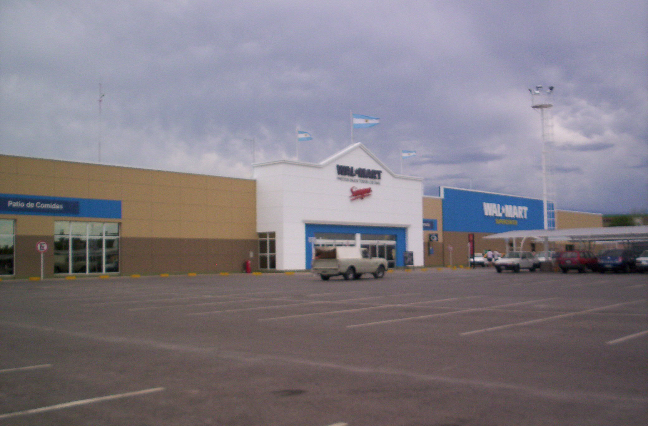 View of the store of the well-known multinational firm Wal-Mart, in Rivadavia, province of San Juan Argentina